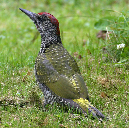 Image shows a juvenile Eurasian green woodpecker (Picus viridis).